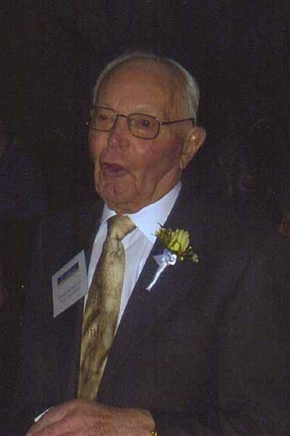 Daniel R. Gernatt, Jr., Board Chairman of Gernatt Asphalt Products, Inc. at Diocese of Buffalo Bishop's Awards Dinner, 2007.